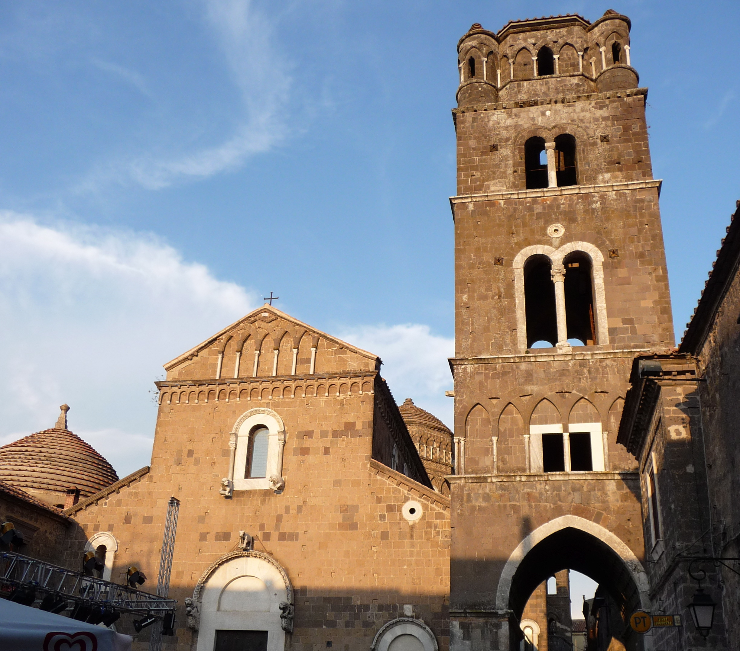 Cathedral of San Michele Arcangelo in Casertavecchia, province of Caserta.